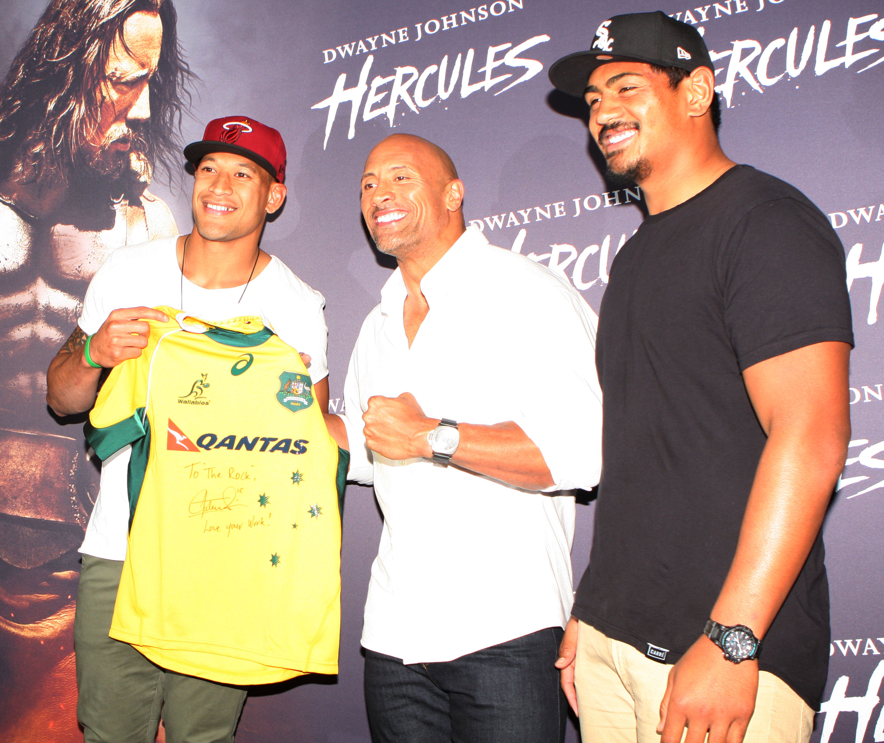 Hercules Premiere, Event Cinemas Sydney Australia